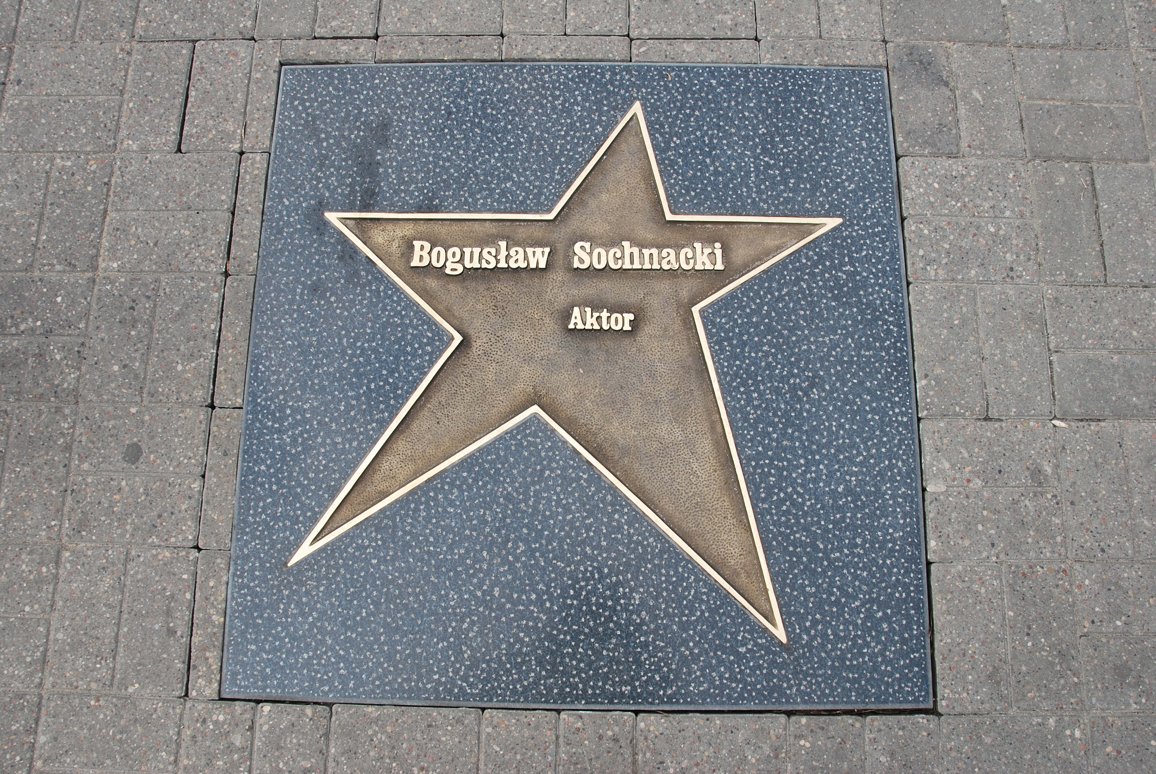 The star of polish actor Bogusław Sochnacki in Łódź Walk of Fame.